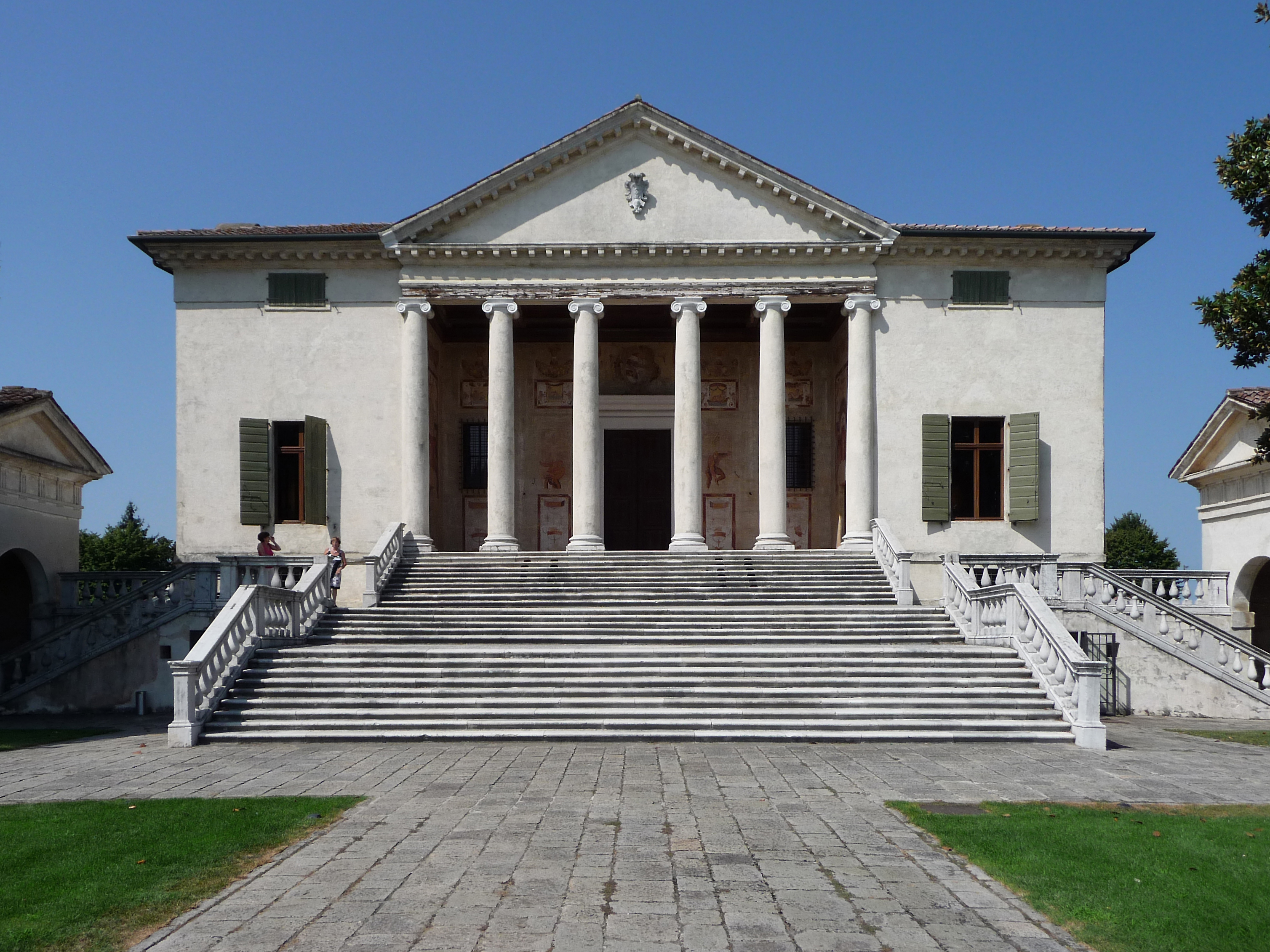 Villa Badoer in Fratta Polesine, province of Rovigo, Italy, designed by Andrea Palladio in 1554 and built 1556-1563.